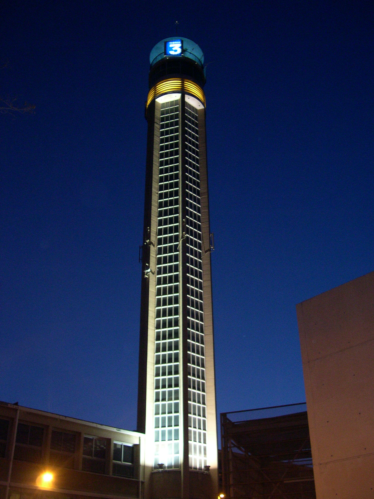 Photo of the tower during night in France 3's headquarters (Marseille).